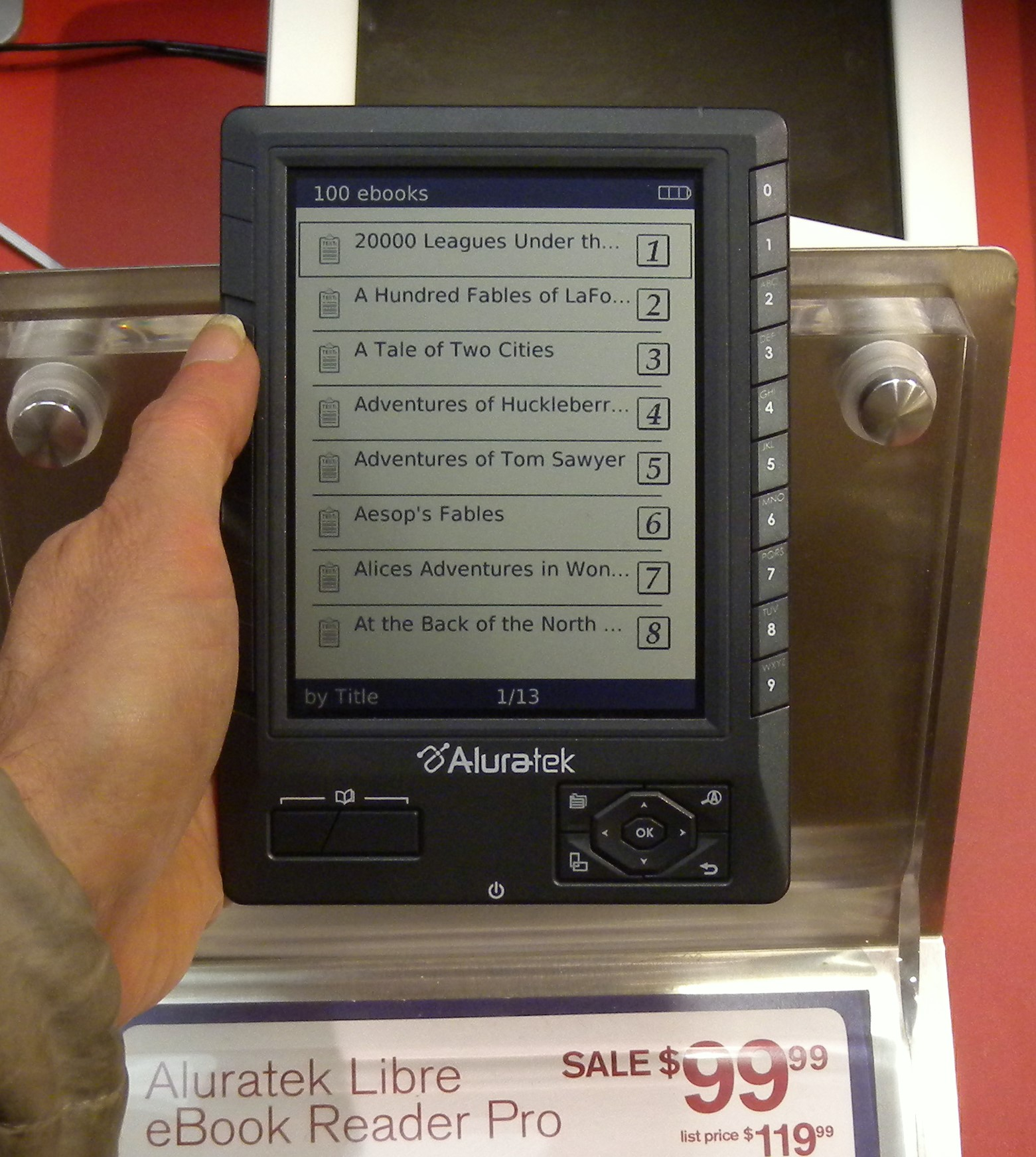 Aluratek Libre E-book reader.